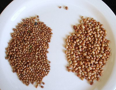 Photo of Matki (Moth Beans)